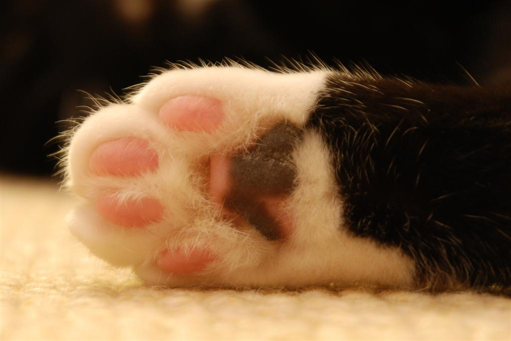 Cat paw